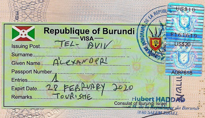 Honorary consulate in Jerusalem, 2020